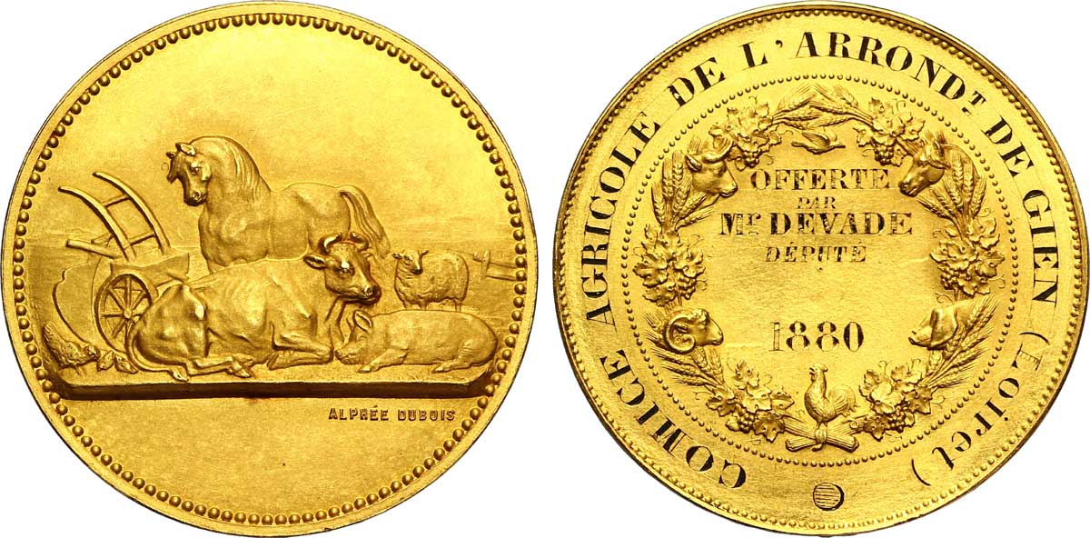 Jeton du Comice agricole de l'arrondissement de Gien, or frappé en 1880. Description avers : Les animaux de la ferme (le cochon, le boeuf, le cheval et le mouton), une charrue sur un terrain extérieur. Description revers : Au centre, légende en cinq lignes inscrite dans une couronne de branches, d’épis, de fruit, d’animaux de la ferme (coq, cochon, cheval, colombe, boeuf, bélier) .